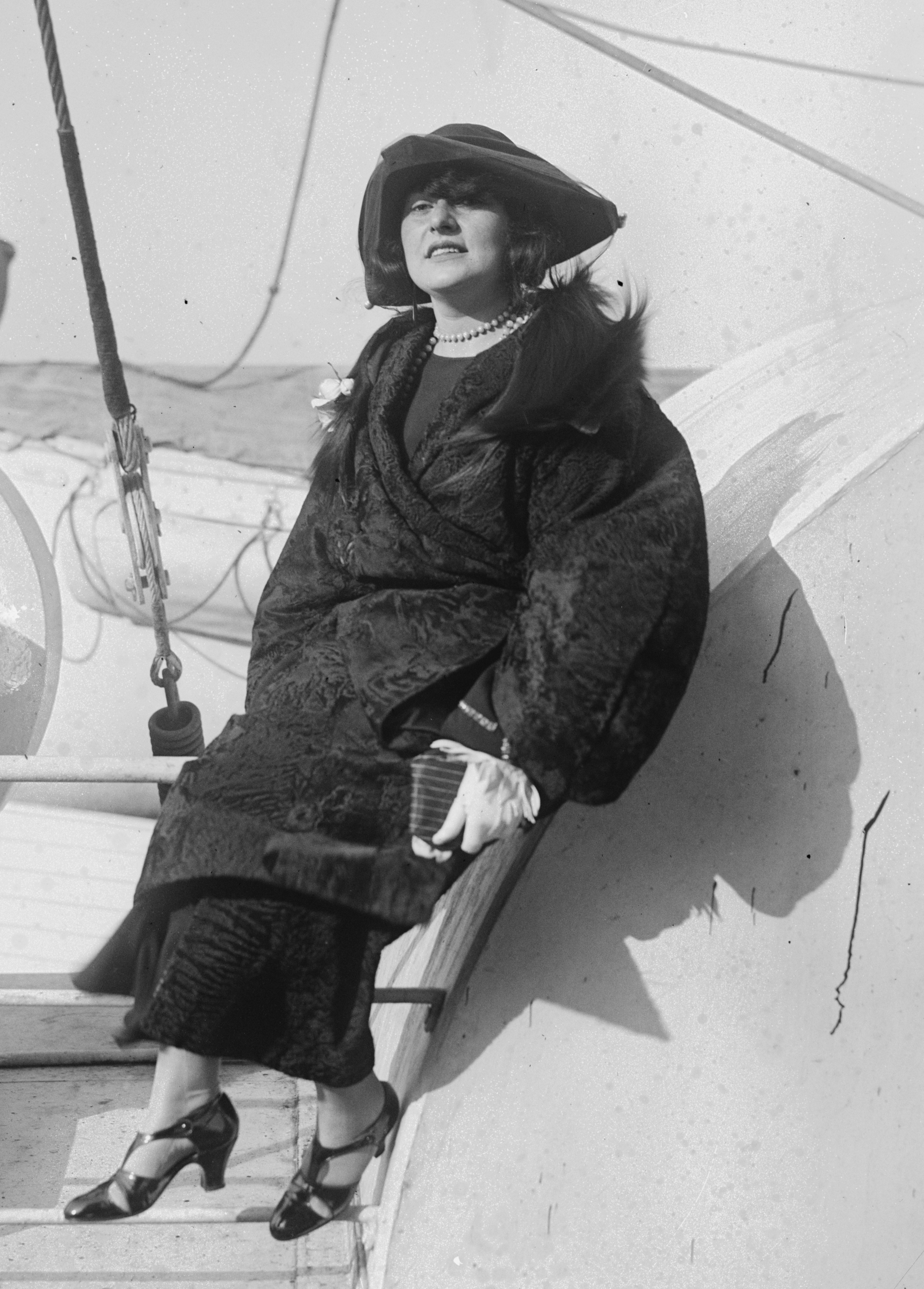 Title: Sally Milgrim Abstract/medium: 1 negative : glass ; 5 x 7 in. or smaller.